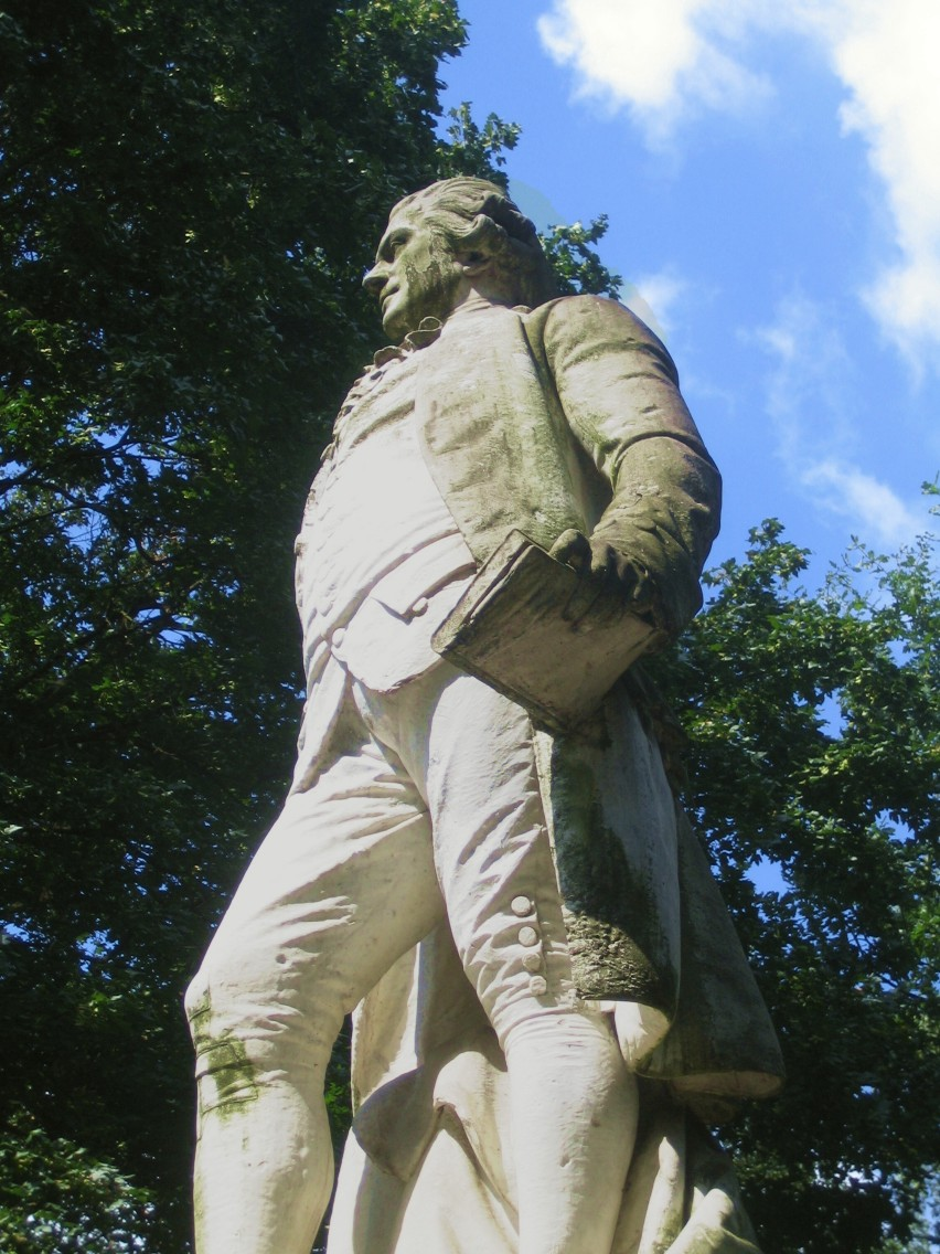 Berlin, Tiergarten. Memorial for Gotthold Ephraim Lessing. Statue of the poet.